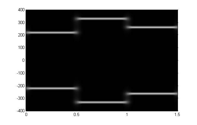 signal after gabor transform